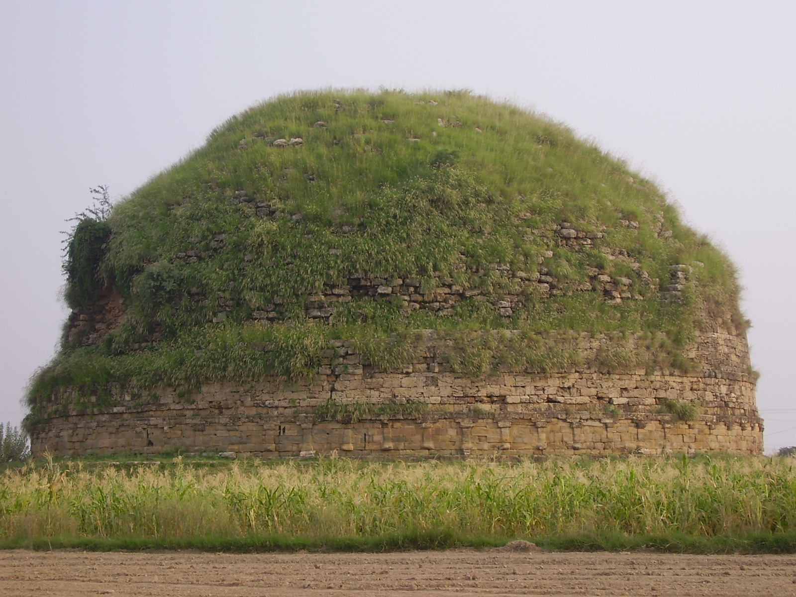 Mankiala Stupa situated near Islamabad / Rawalpindi Pakistan. It is a holy site for Buddhist as it is related to Mahatma Buddha.